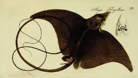 Aetobatus flagellum syn. Raja flagellum